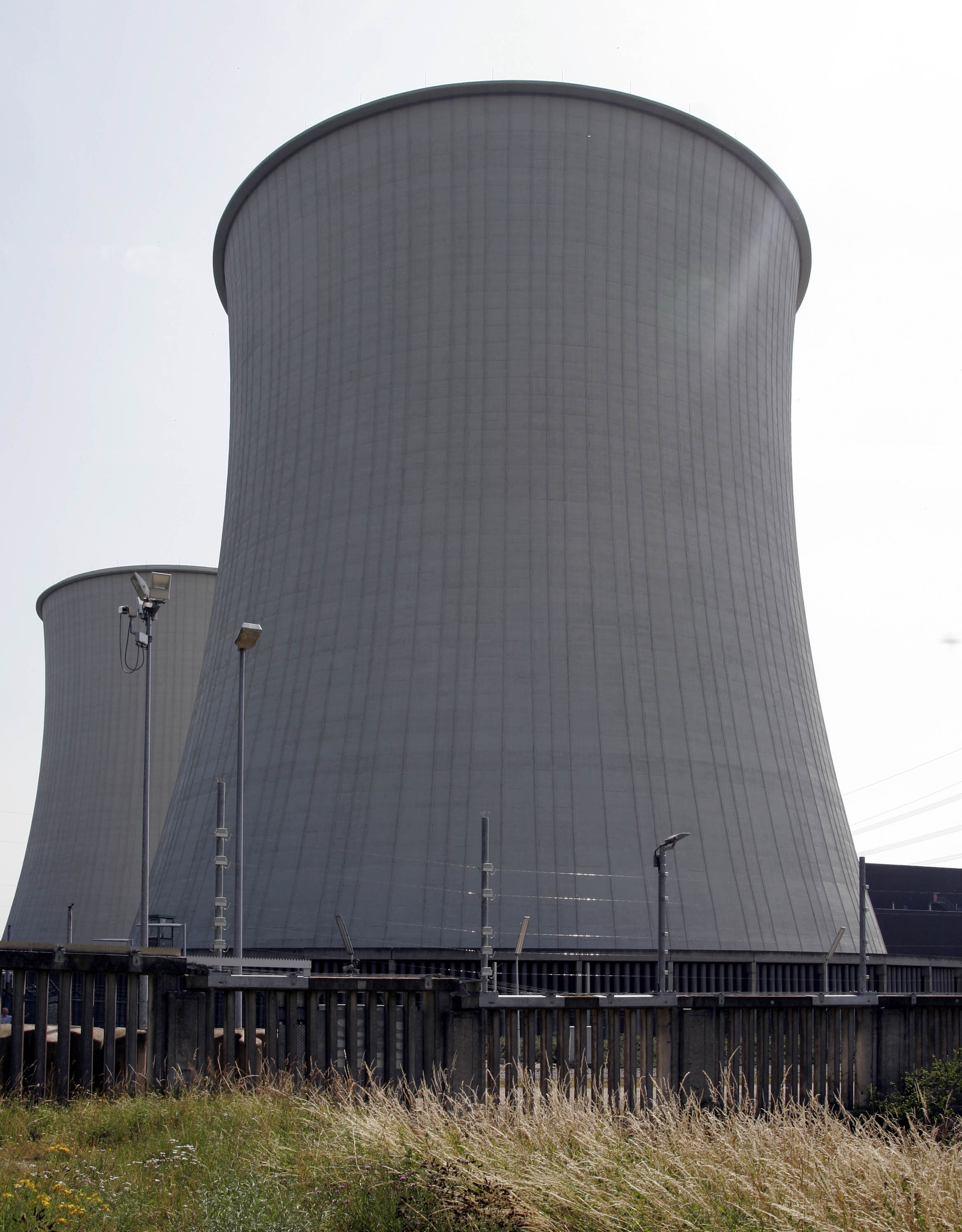 Biblis Nuclear Power Plant (Germany), cooling towers from bloack A seen from South-West.